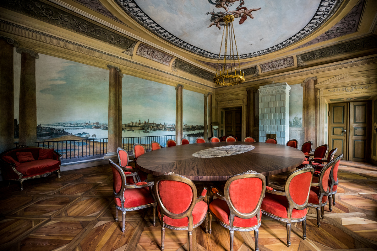 Varsovian Hall - panaromic fresco of XVIII century Warsaw